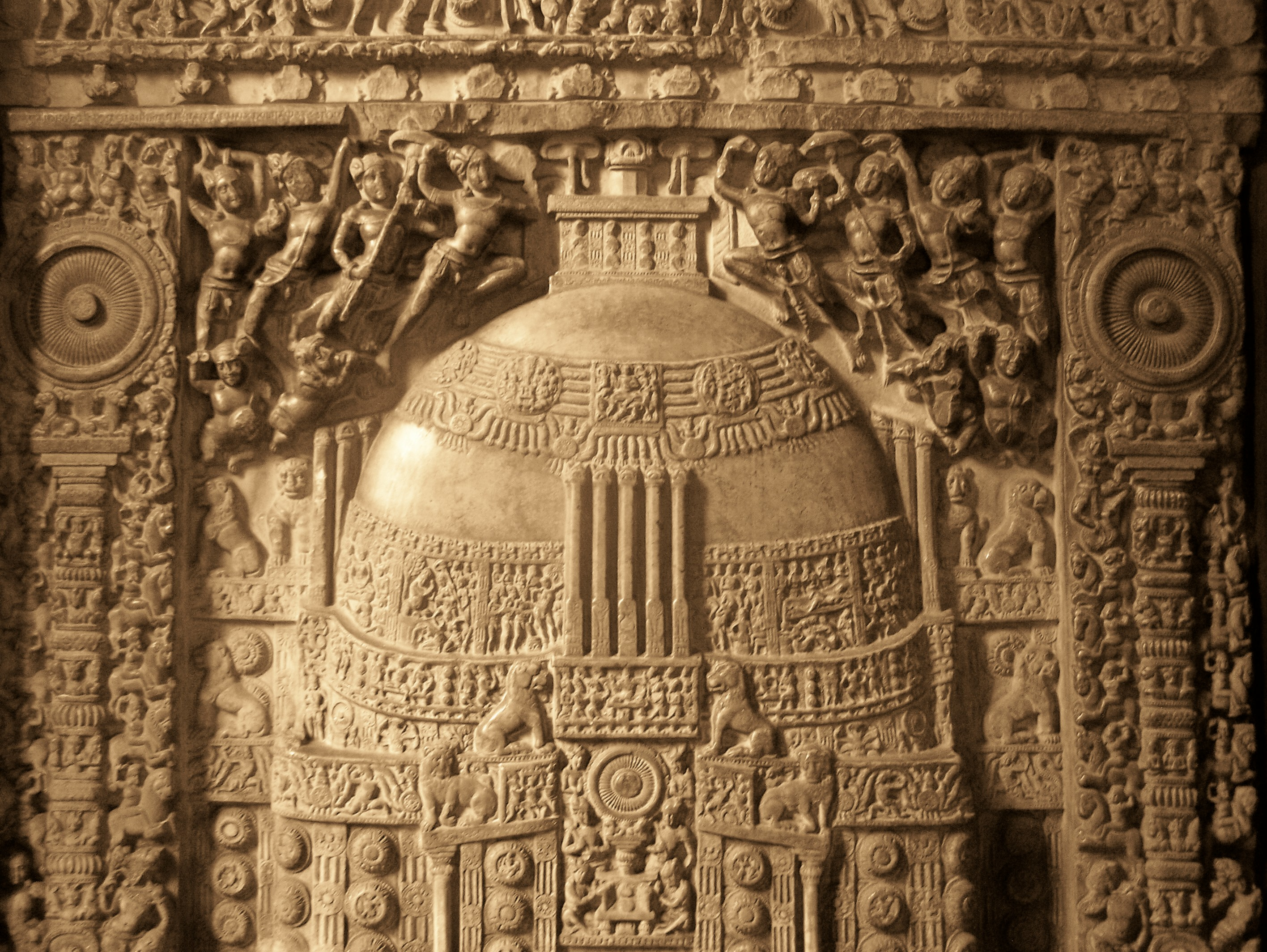 Amaravati Maha Stupa relief at Museum in Chennai, India